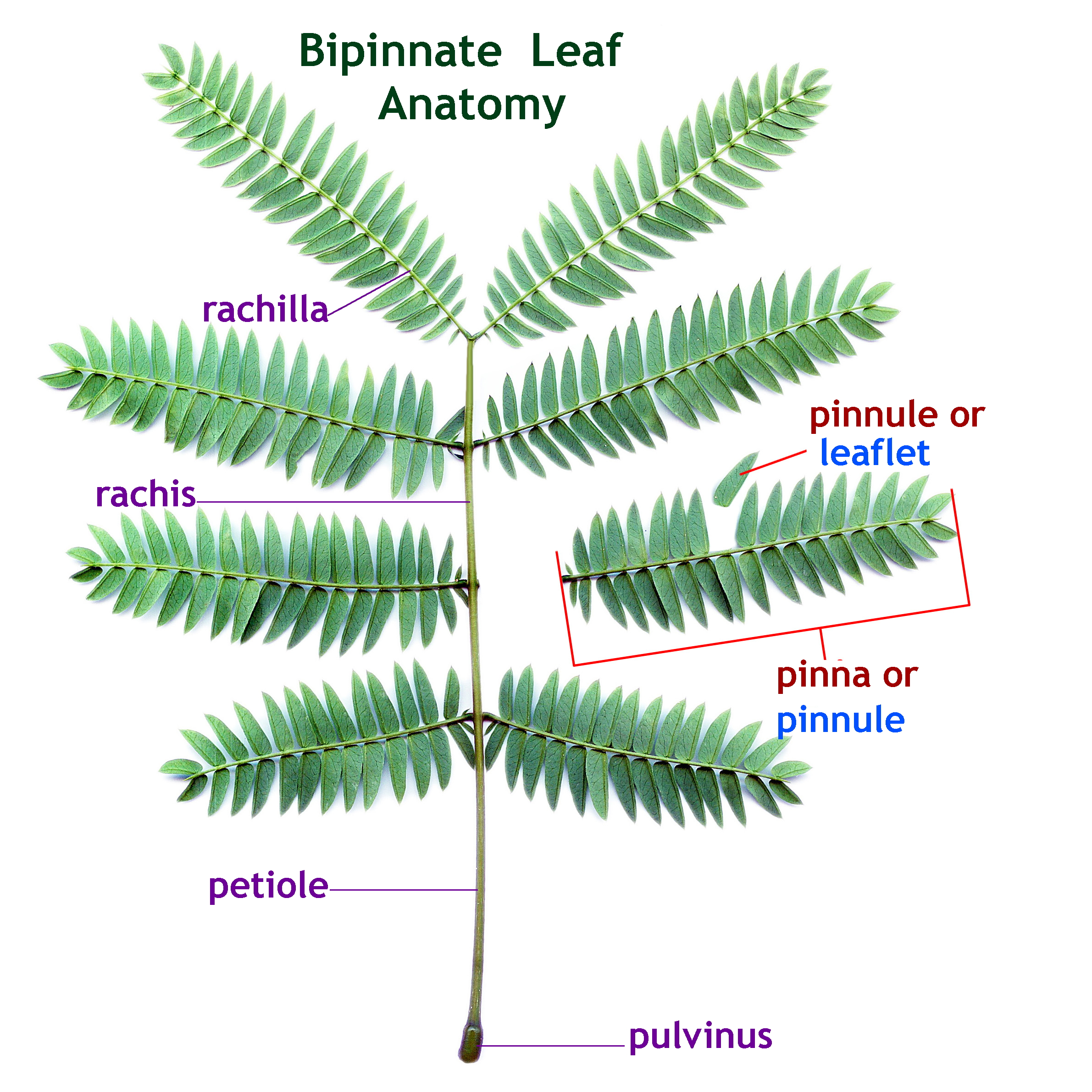 Bipinnate leaf anatomy with alternate labels, based on existing file at Pinna and pinnula by Gmihail at Serbian Wikipedia Added other labels plus alternative terms, the nomenclature being inconsistent between authors. Added more labels